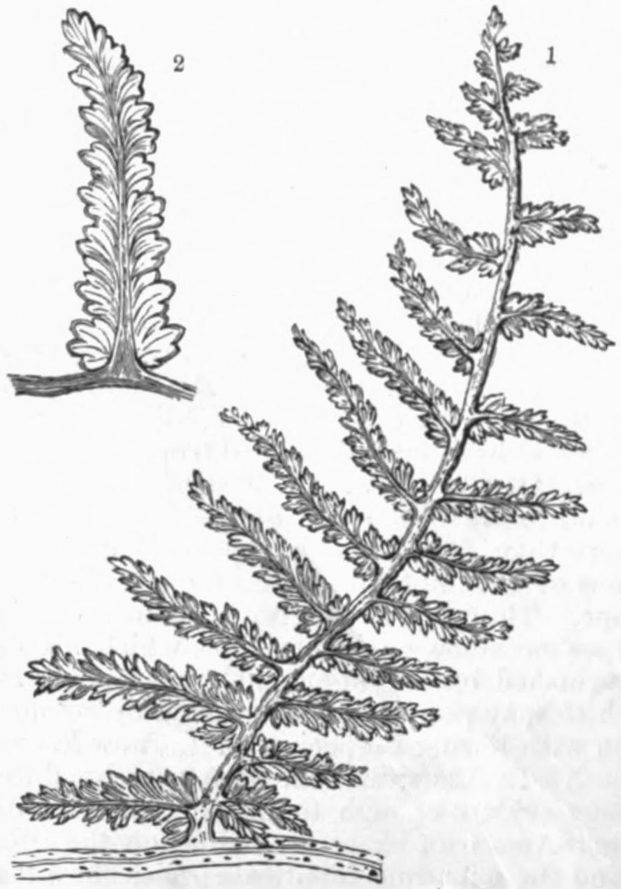 Illustration of a fossil plant found in coal: Sphenopteris tridactylitis.